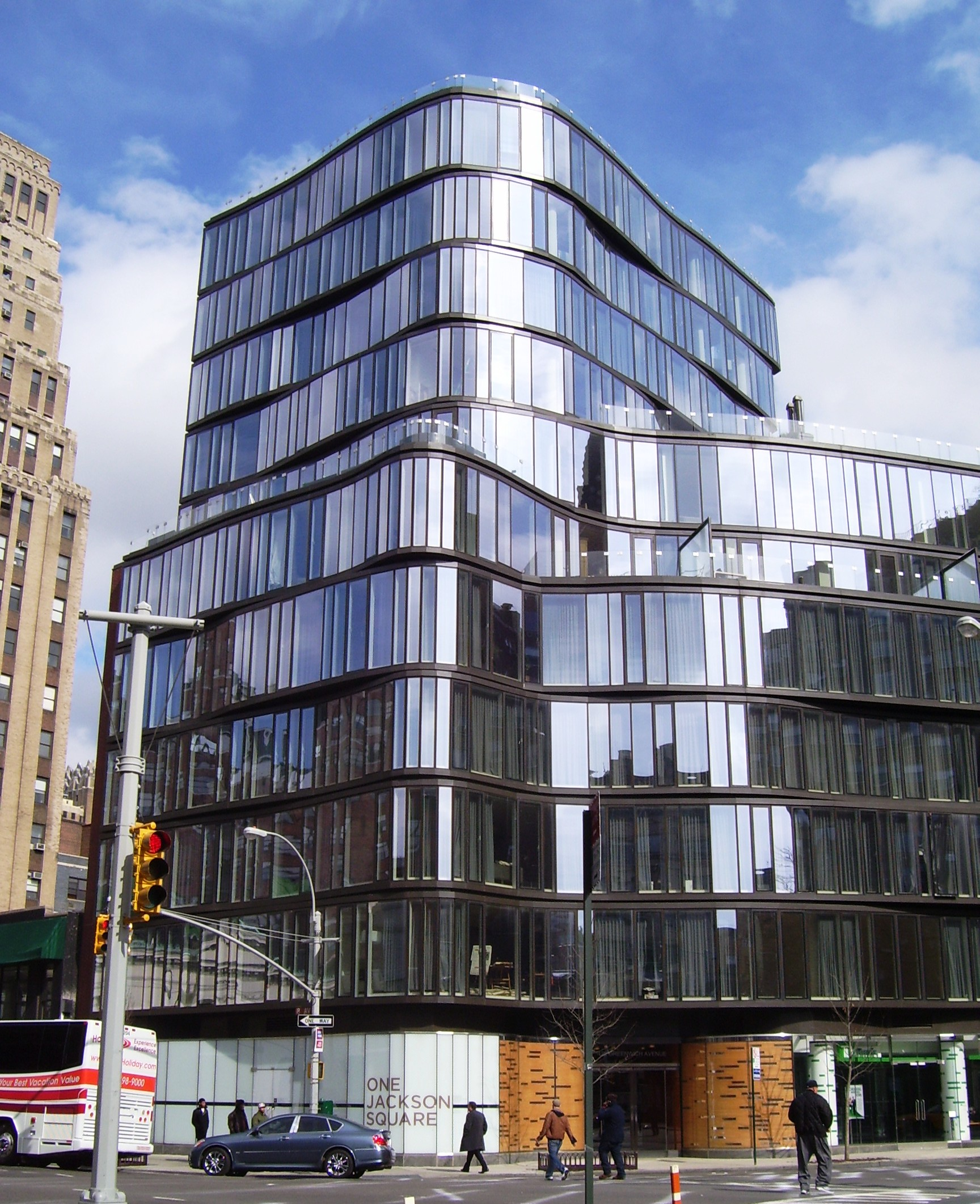 One Jackson Square at 122 Greenwich Avenue on the corner of Eighth Avenue in the Greenwich Village neighborhood of Manhattan, New York City, is a residential condominium building completed in 2010 and designed by William Pedersen of Kohn Pedersen Fox. (Source: Curbed NY)